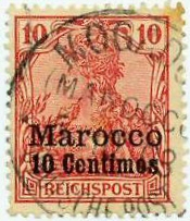 Postage Stamp of German Empire in Morocco.